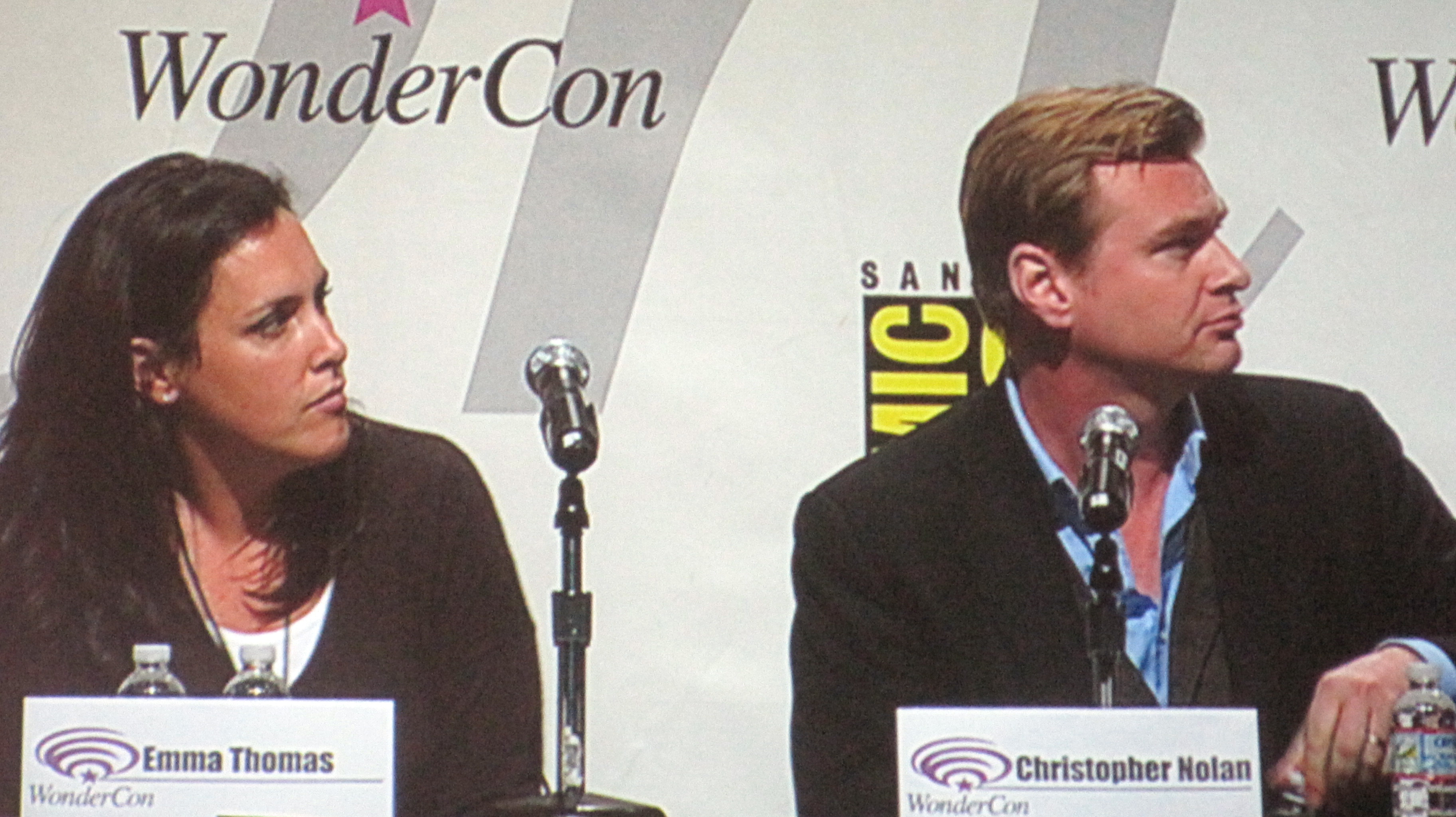 Producer Emma Thomas and director Christopher Nolan participating in the Inception panel at WonderCon 2010.